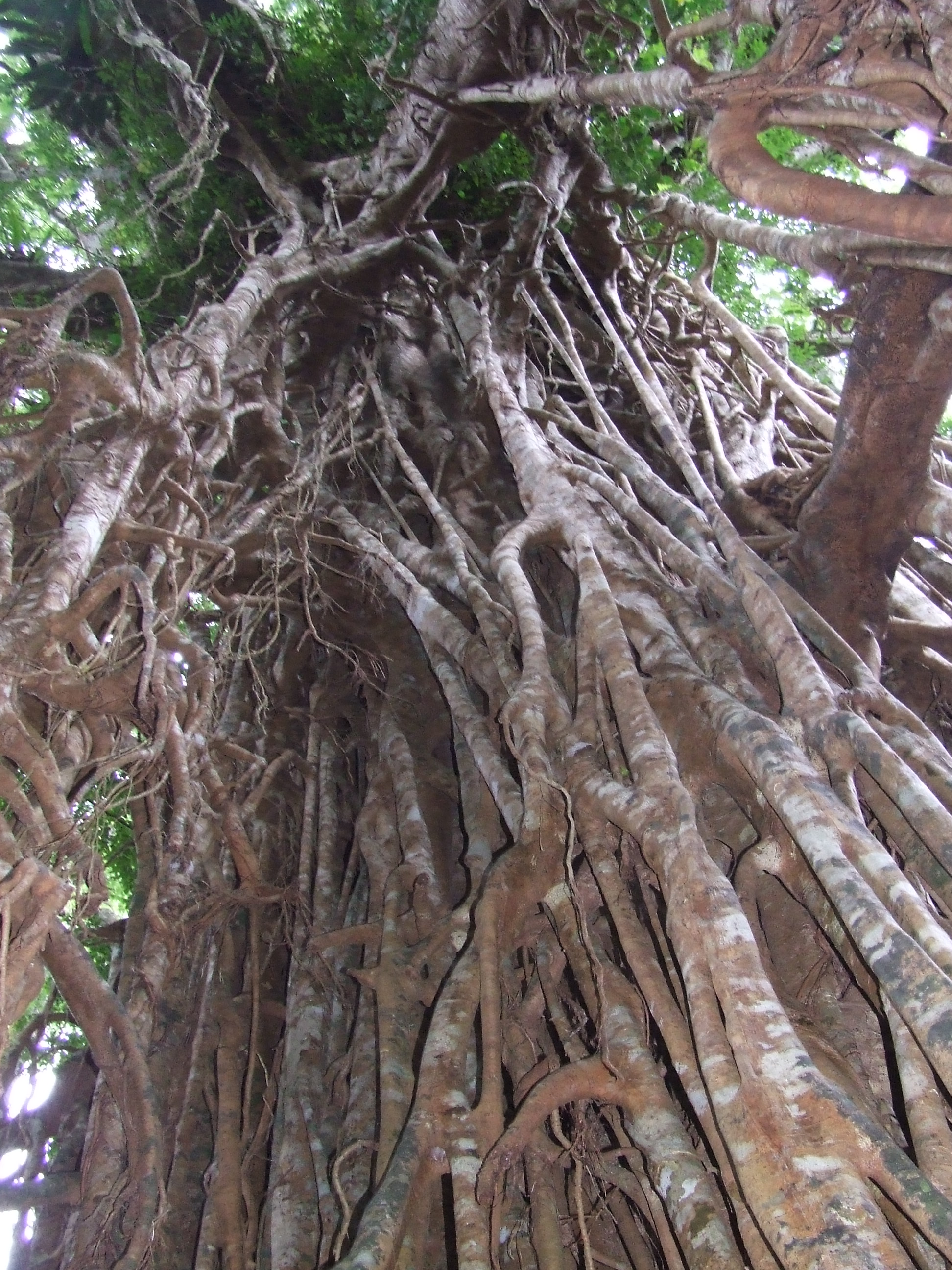 Ficus microcarpa. Located near Lake Barrine. Not to be confused with the Curtain Fig tree at Yungaburra.